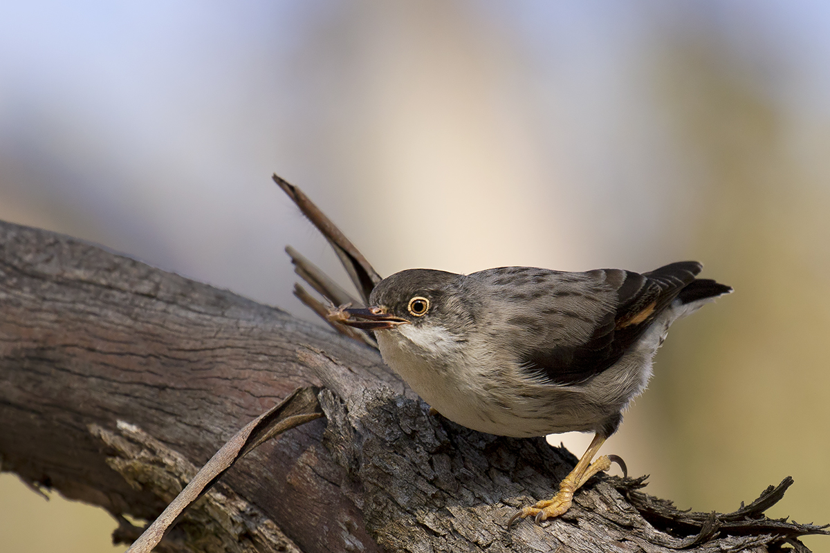 Strangways Vic.